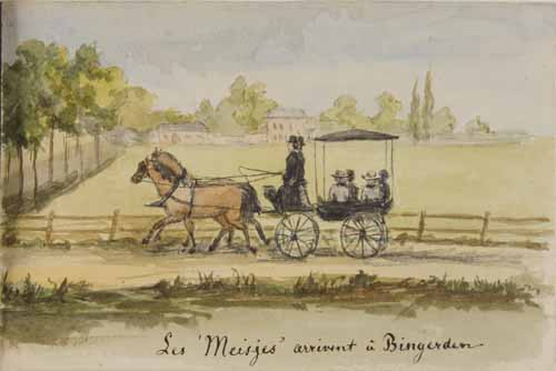 The 'Girls' arrive at Bingerden, 1883